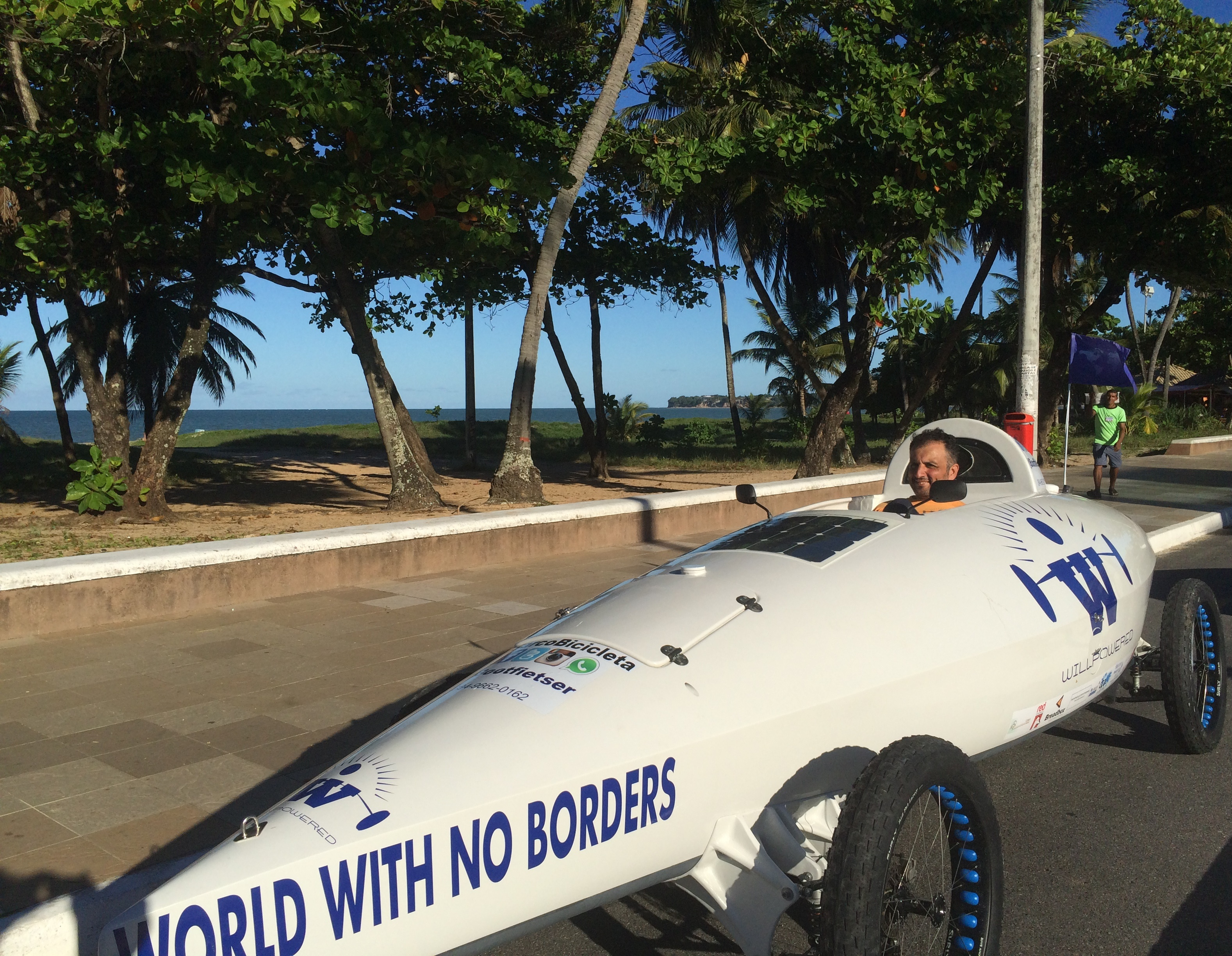 The Ocean Biker, Ebrahim Hemmatnia in his boatbike, March 2015, ​Joo Pessoa